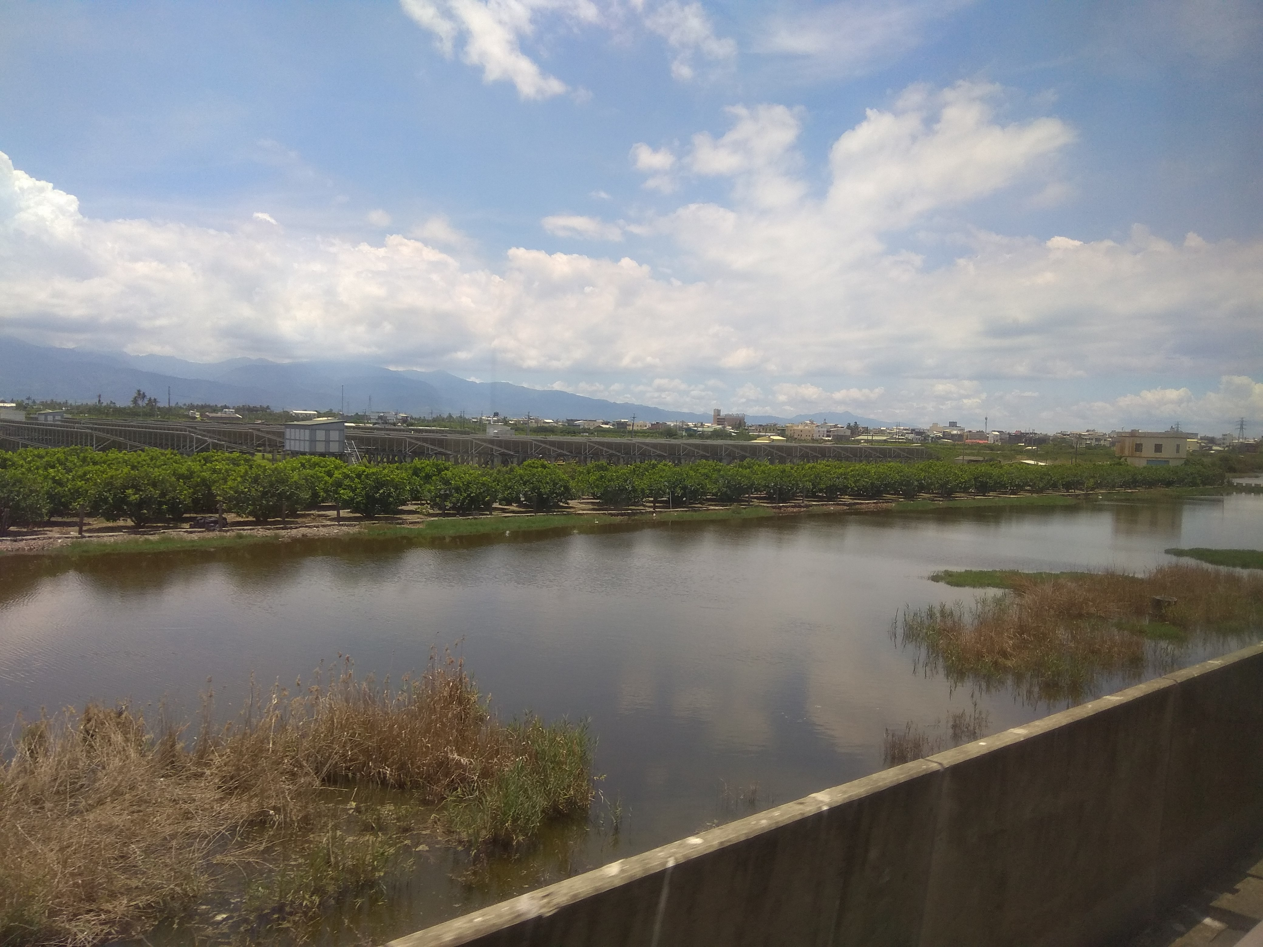 Pingtung plain (mountain side)